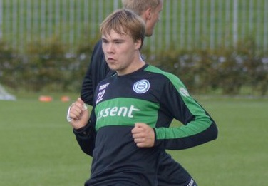 Simon Tibbling